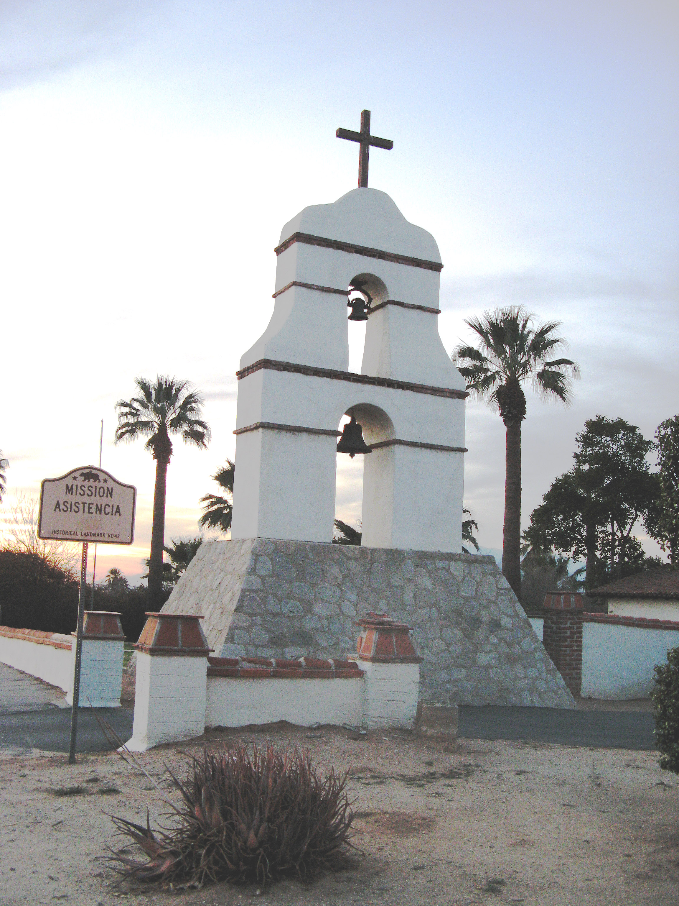 The bell tower of San Bernardino Asistencia at Redlands, built 1937. Photographed and uploaded by user:Geographer